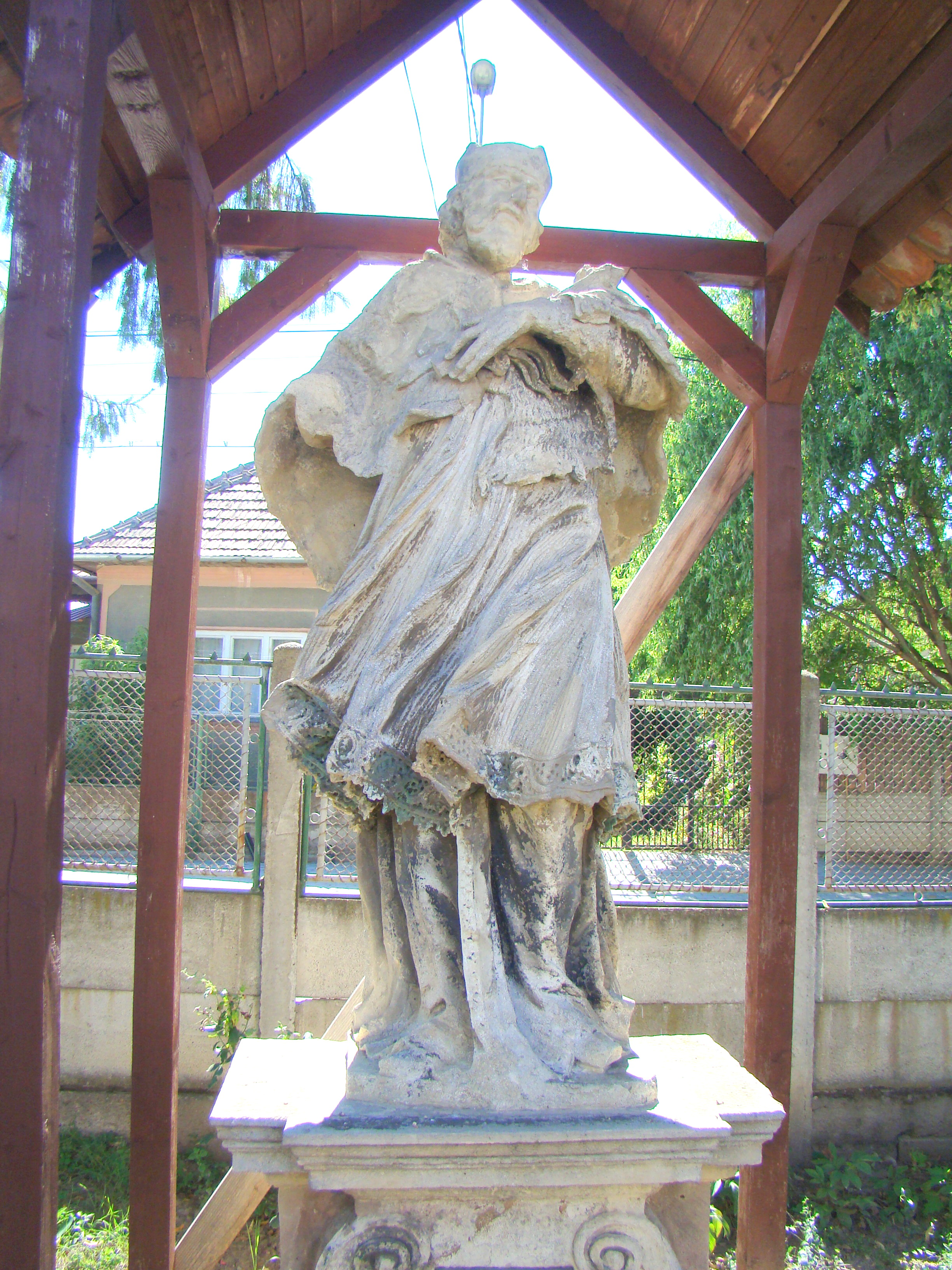 Roman Catholic church in Bărăbanț, Alba county, Romania